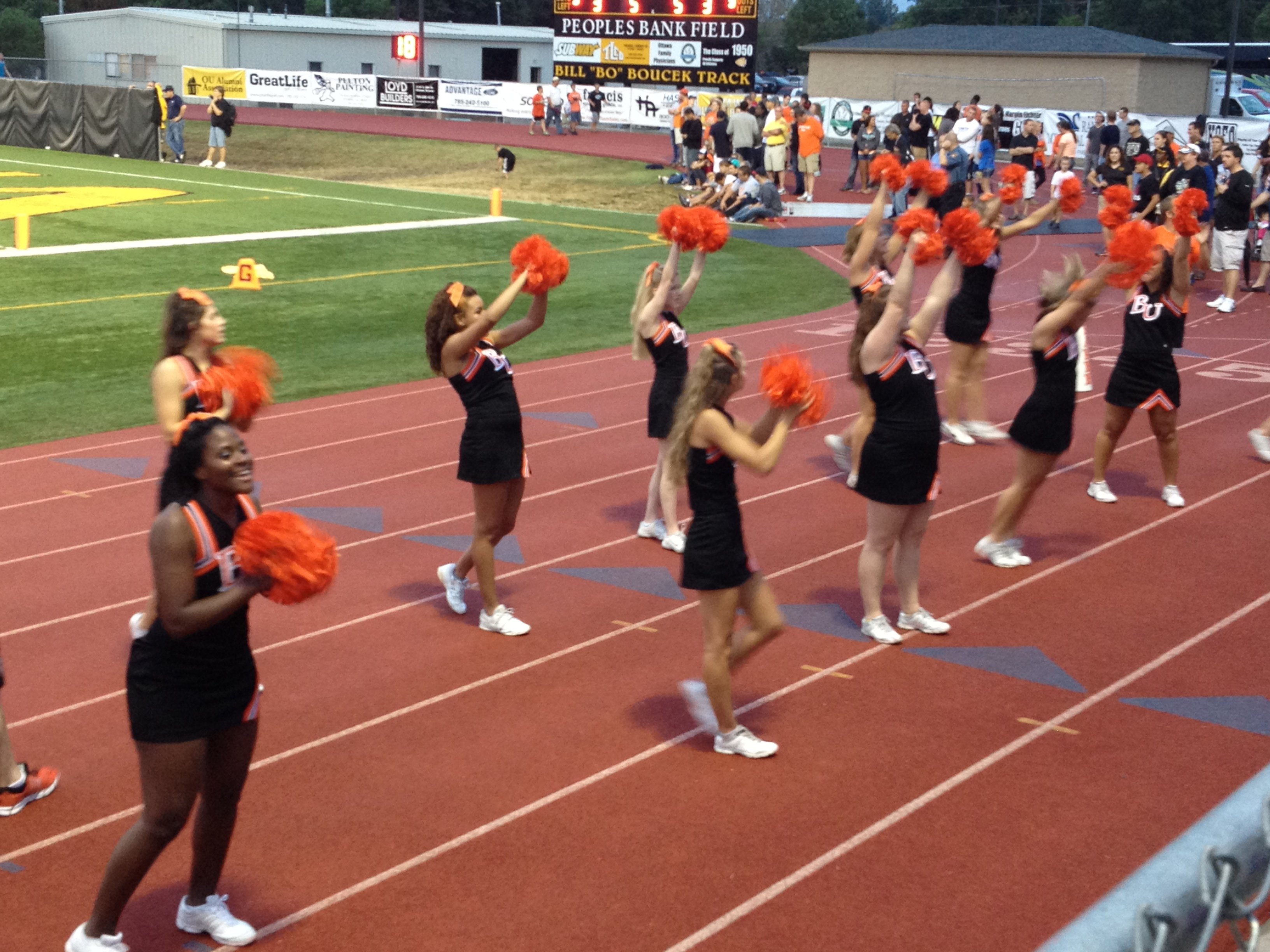 Baker University pep squad leading cheers at a college football game